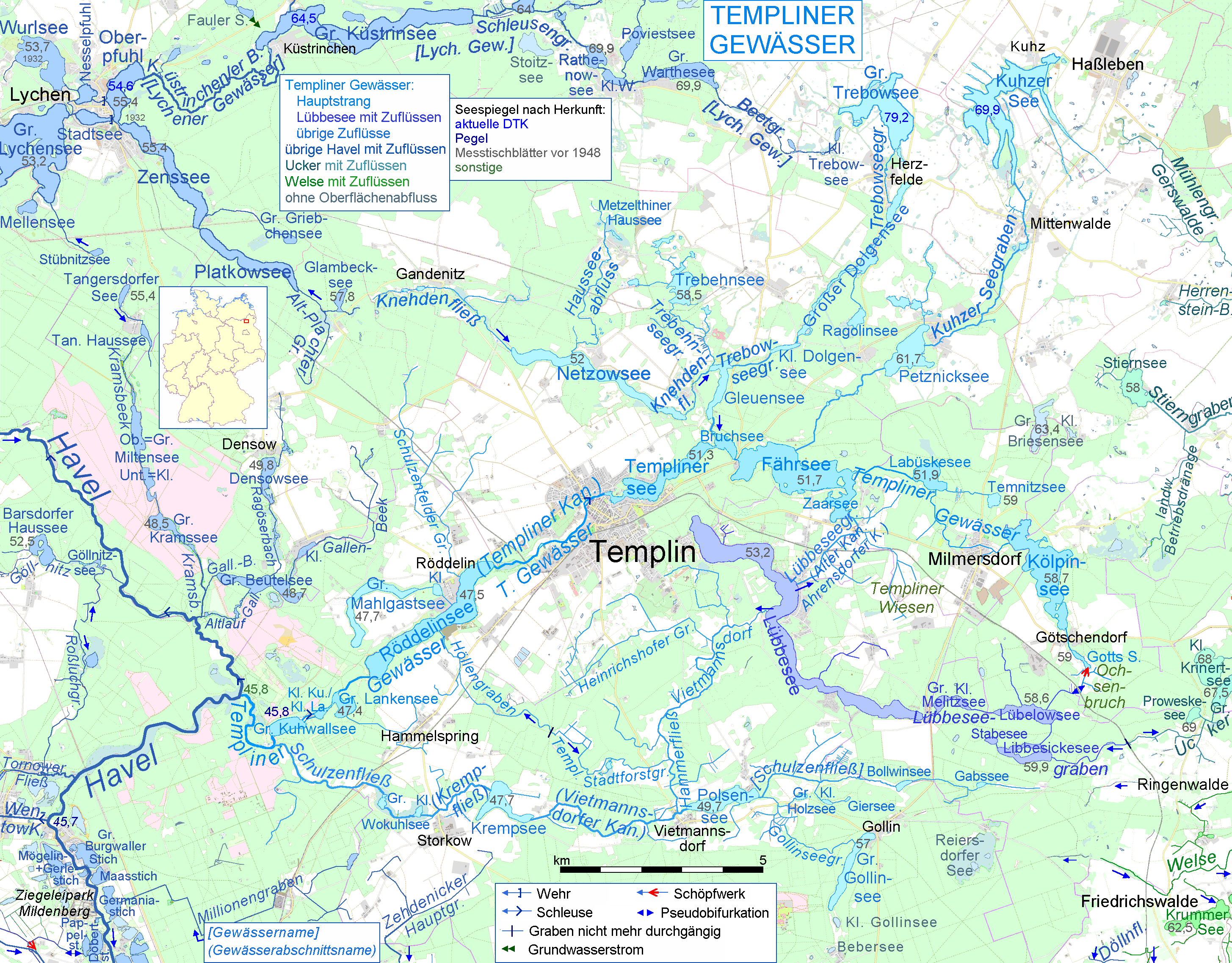 Map of river Templiner Gewässer. This map may be incomplete, and may contain errors. Don't rely solely on it for navigation.